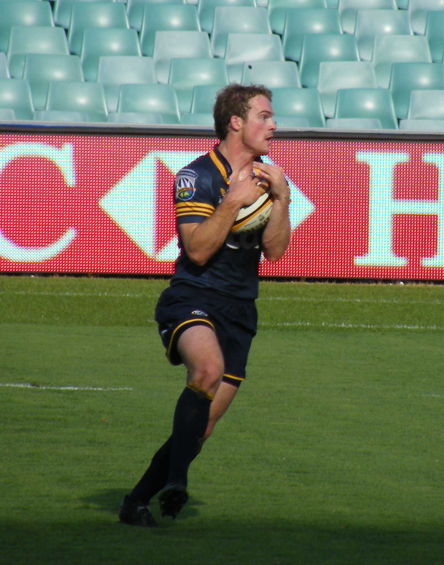 Brumby Runners' fullback Pat McCabe